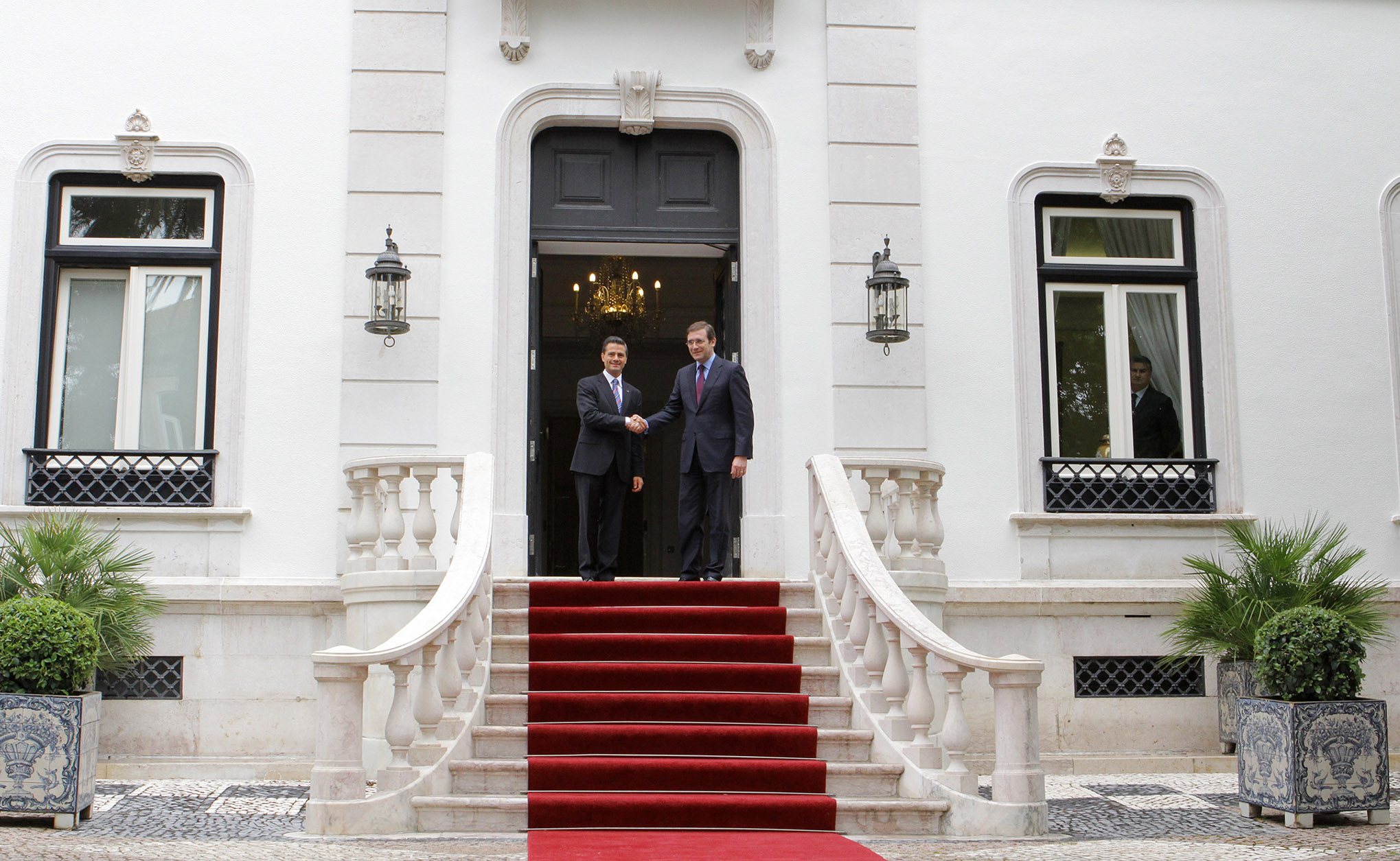 Portuguese Prime Minister Pedro Passos Coelho (right), shakes hands with Mexican President Enrique Peña Nieto (left), just outside the Palacete de São Bento.